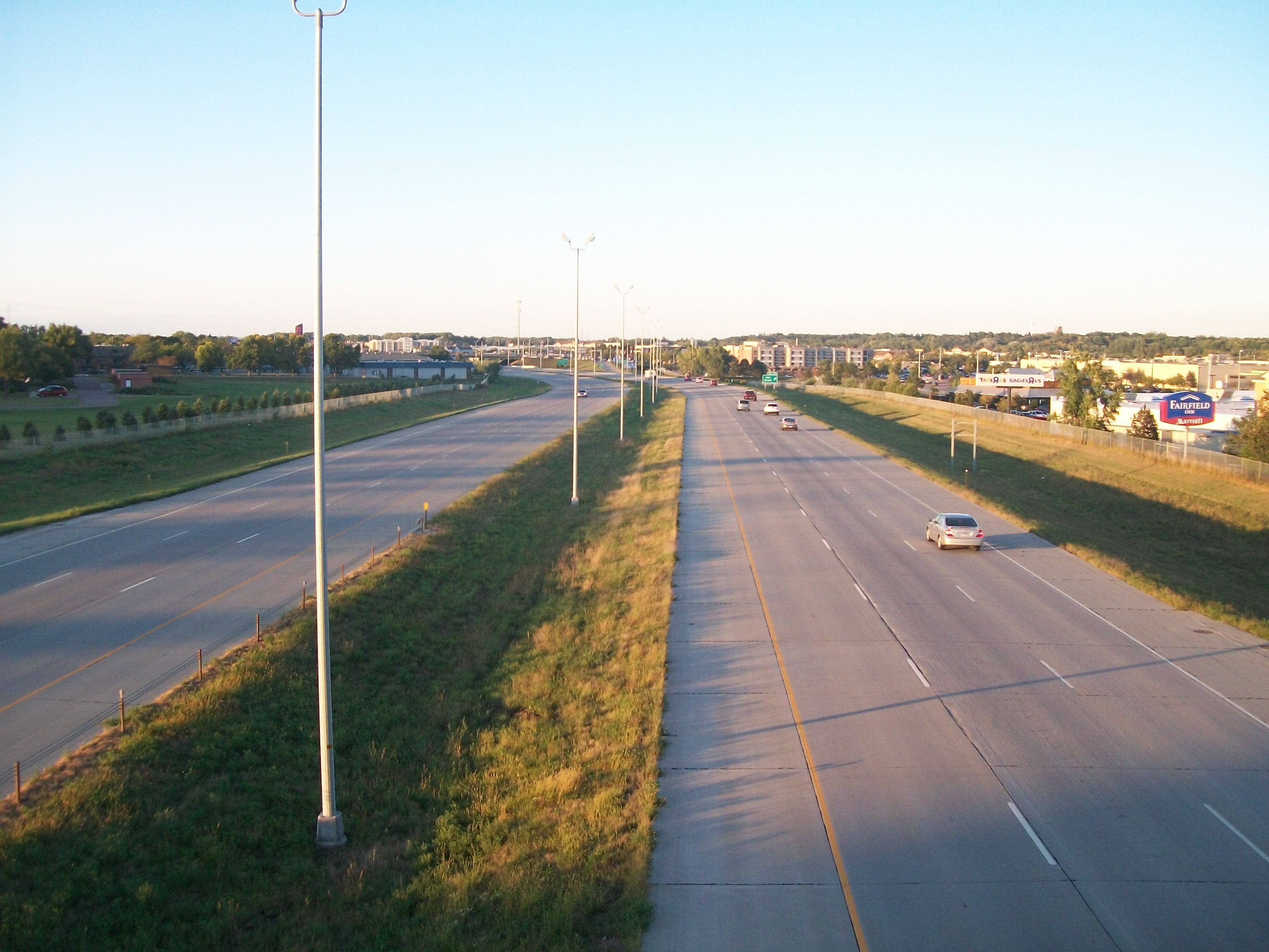 Interstate 29 northbound from the 49th Street overpass in Sioux Falls, South Dakota